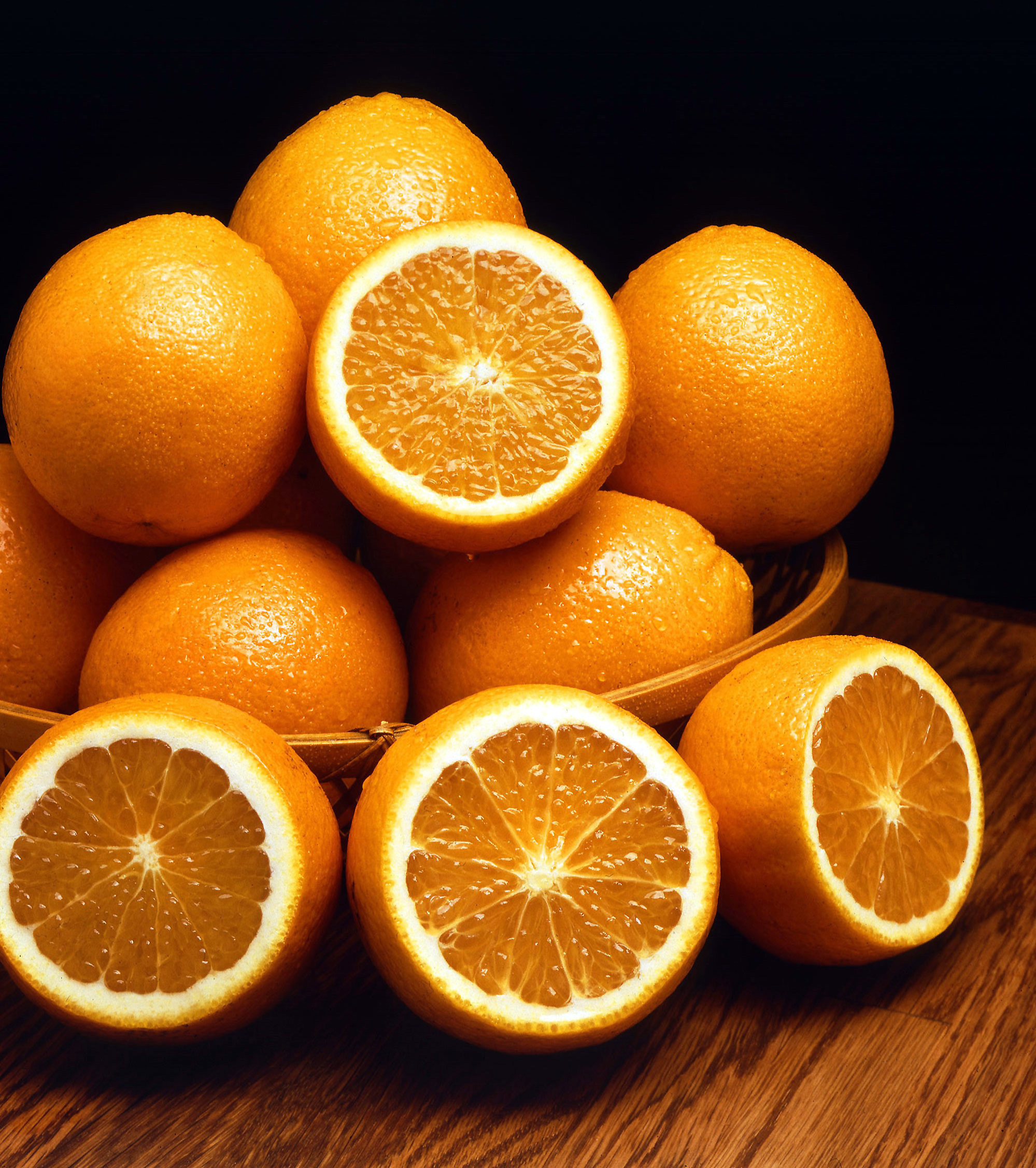 Ambersweet oranges, a new cold-resistant orange variety.